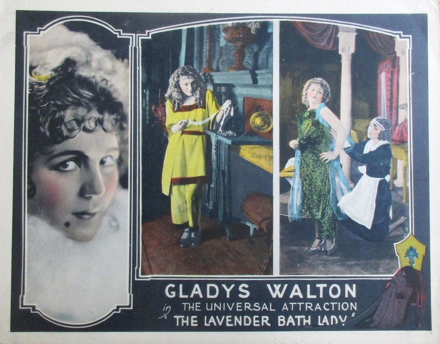 This is a lobby card for the American silent comedy film The Lavender Bath Lady (1922) with Gladys Walton.